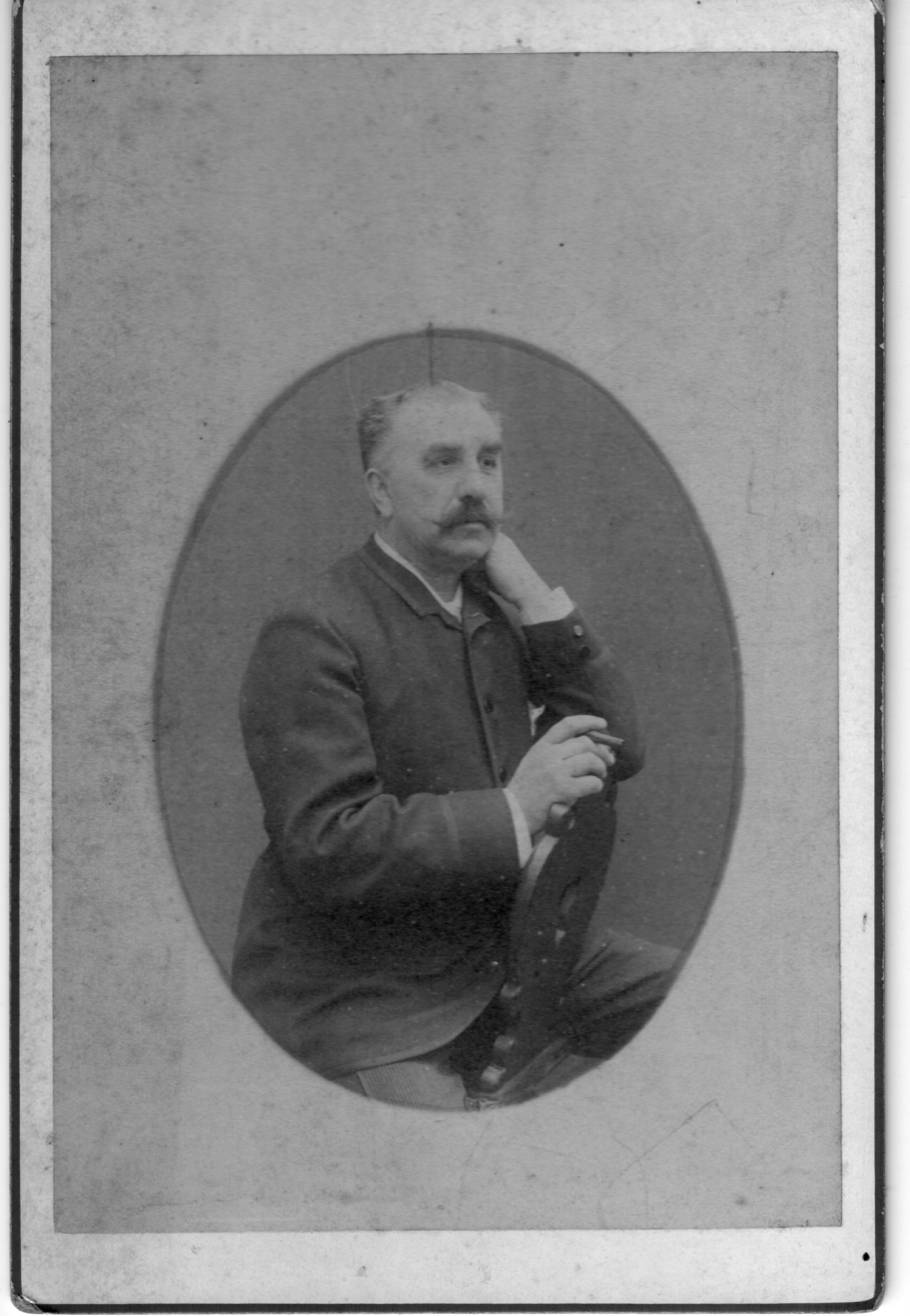 Ulysse T. du Wast ex french ténor then musical publisher 11 faubourg Poissonnière street in Paris (1839-1919)